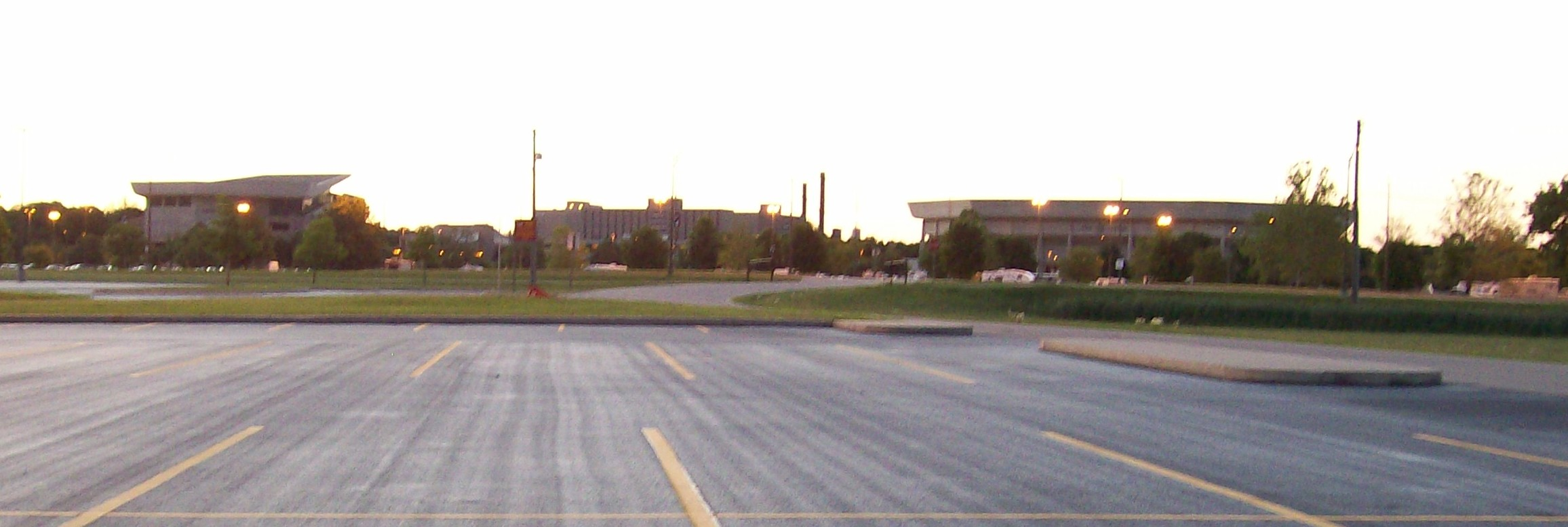 Beardshear